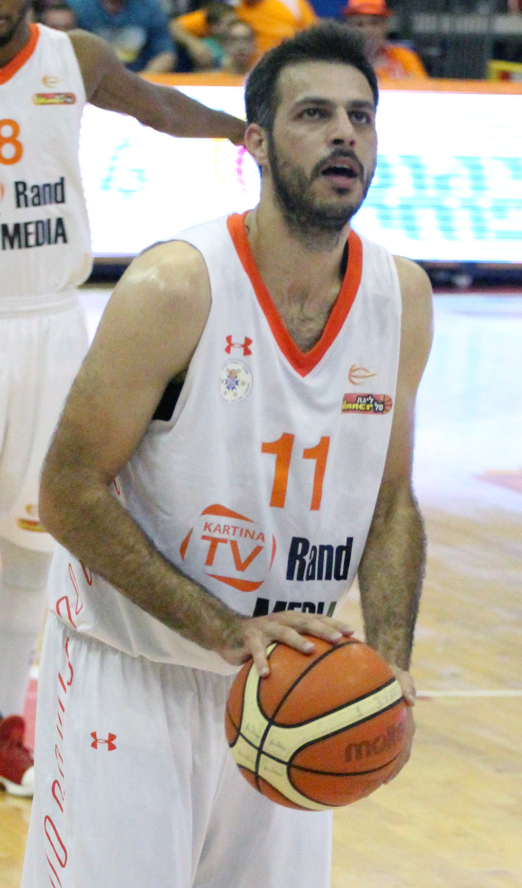 Avi Ben Chimol during Maccabi Rishon Lezion game against Galil, 27.4.2017.